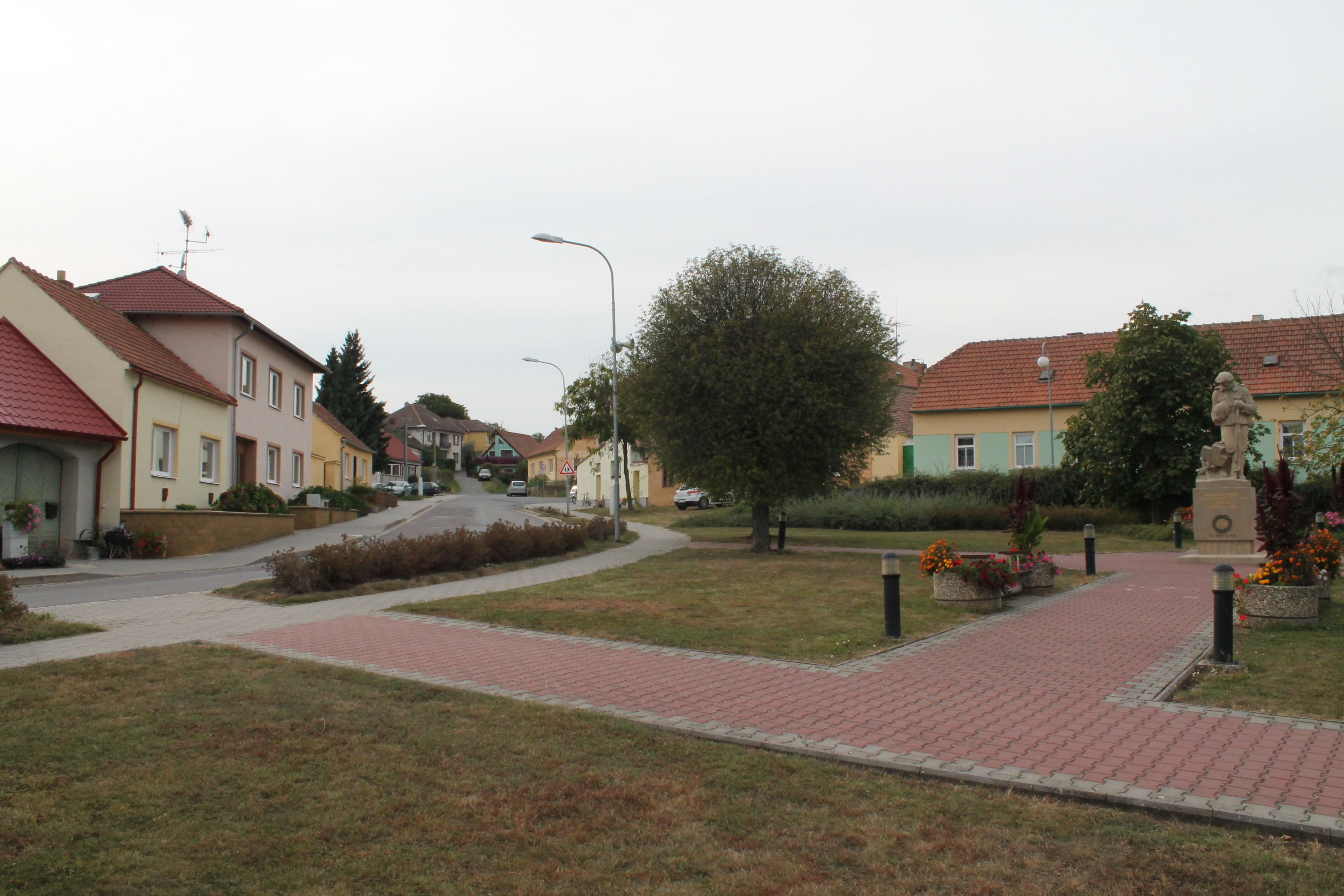 Únanov, Znojmo District, Czech Republic This photograph was taken during a group photography field trip by Brno Wikipedians: 2016-09-28.